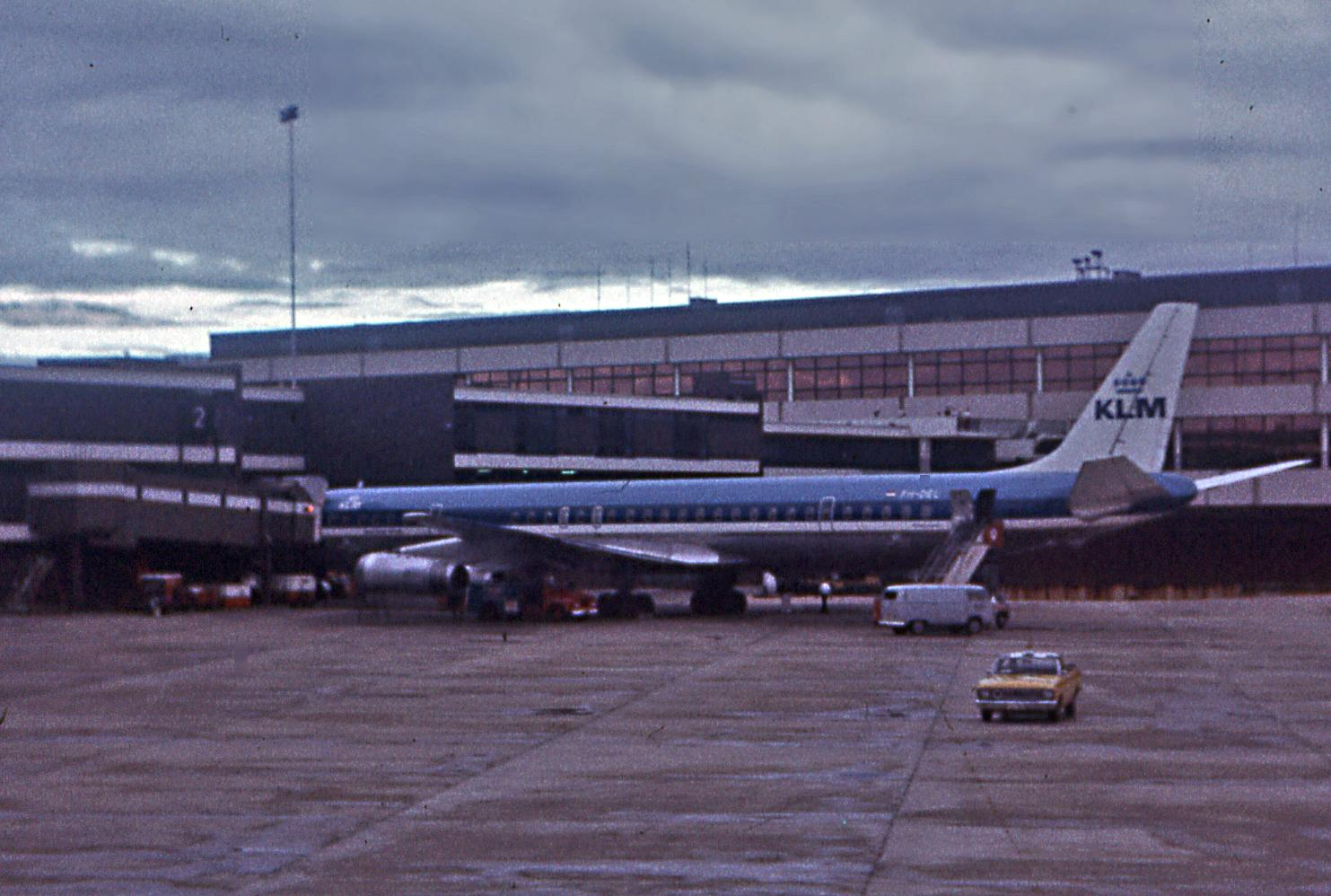 KLM DC8 at Gate 2 at Sydney Airport.